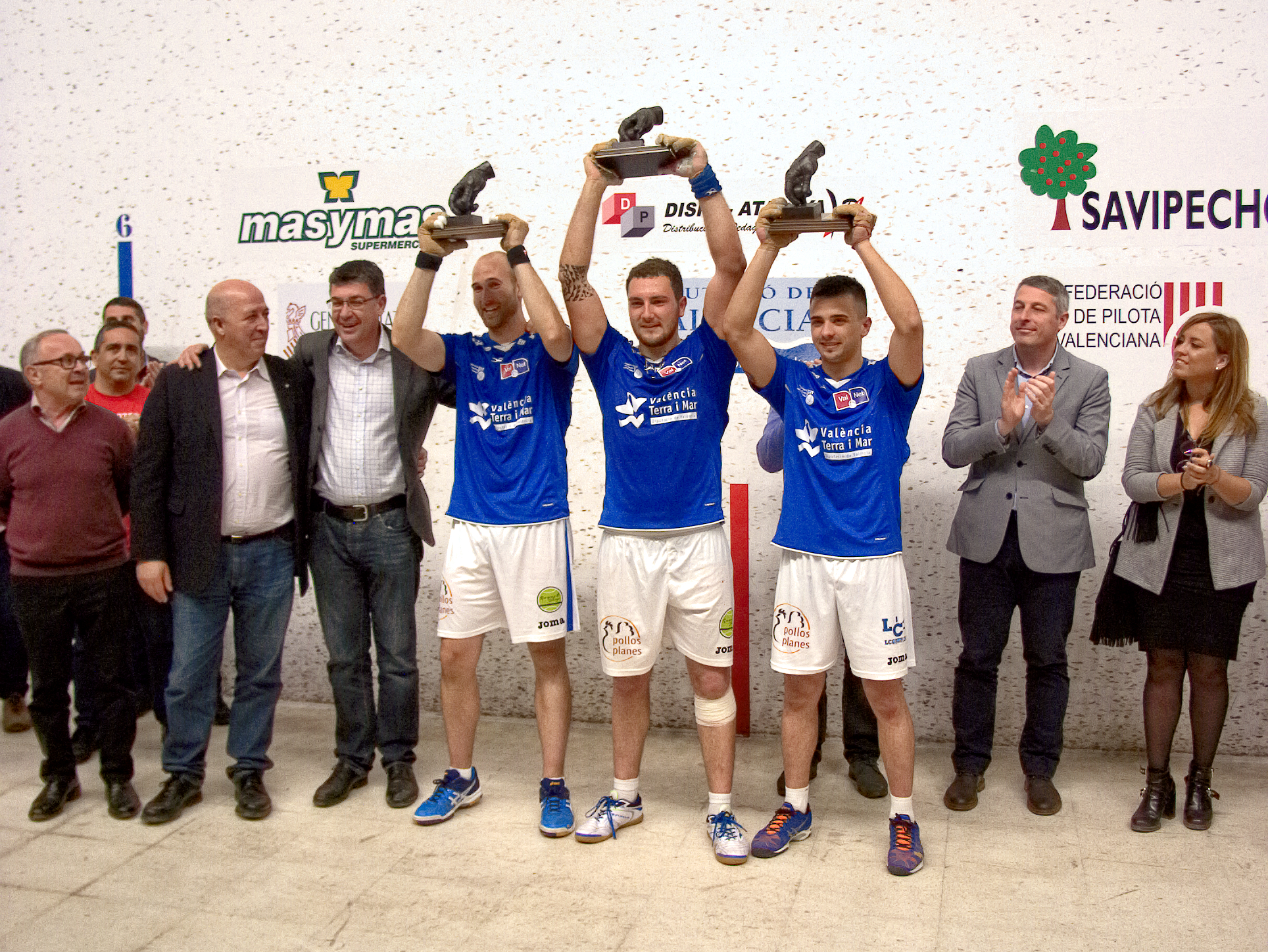 winners of the 23rd Raspall Professional League (Ricard, Sanchis and Roberto) with authorities at Oliva's Municipal Trinquet.